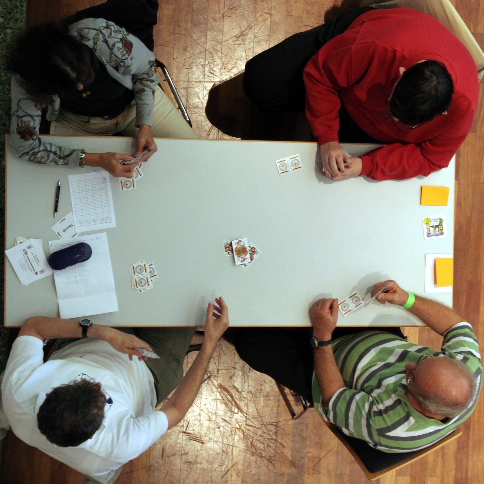 The 30th German Doppelkopf Masters in Darmstadt (Hesse), venue: Groß-Gerau, City Hall.